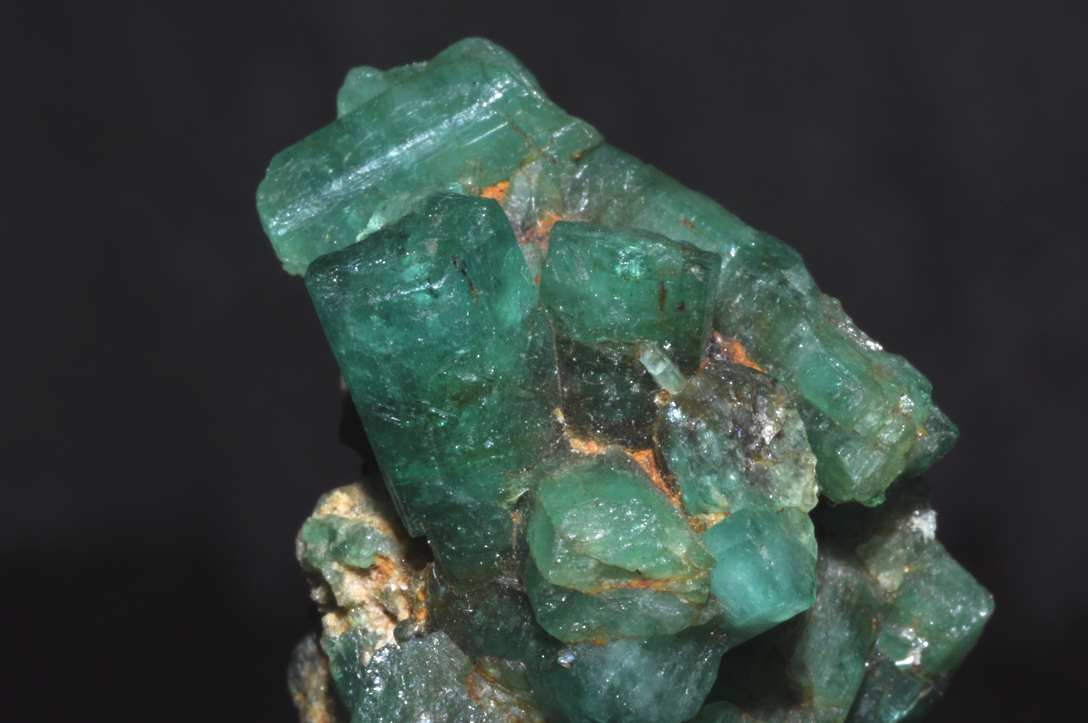 Crystals of beryl var. emerald : Muzo Mine, Mun. de Muzo, Vasquez-Yacopí Mining District, Boyacá Department, Colombia